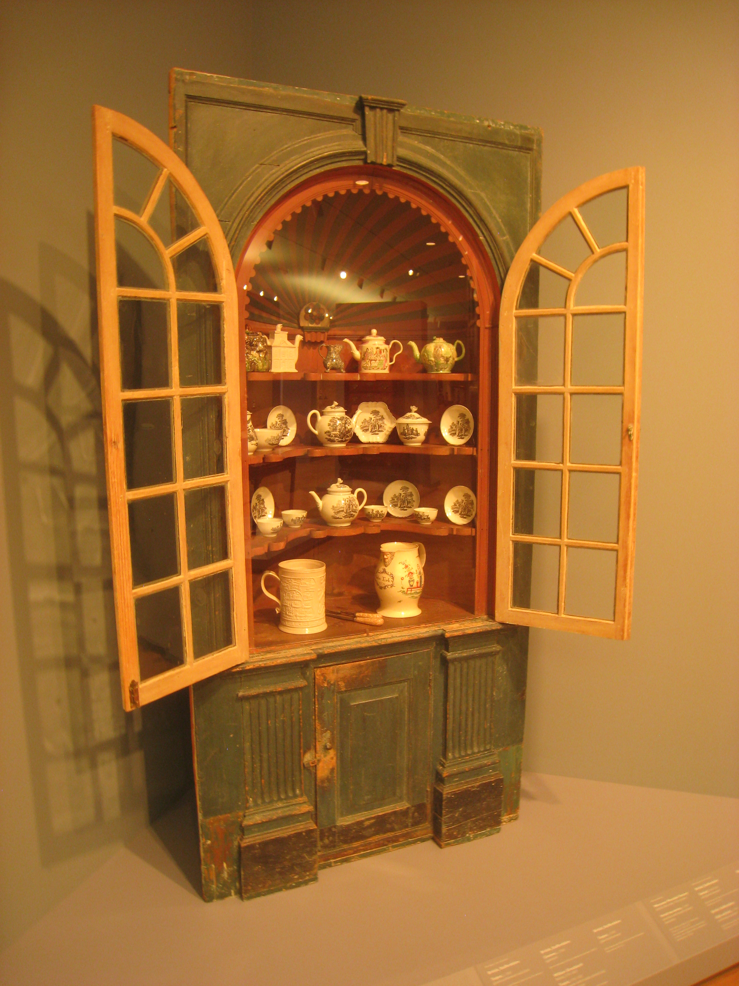 Corner cupboard, American (Long Island, NY), c. 1750-1775, exhibited in the Carnegie Museum of Art, Pittsburgh, Pennsylvania, USA.